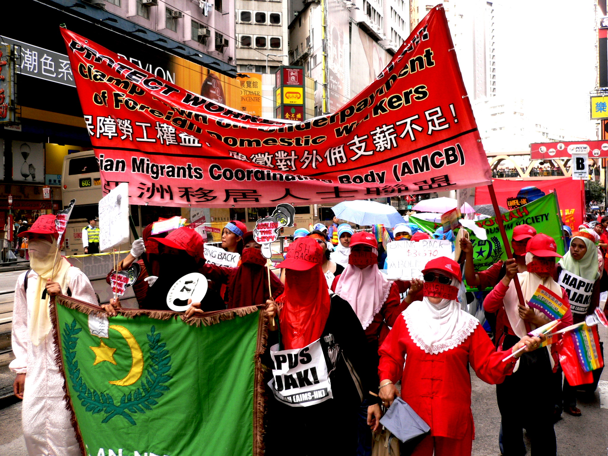 Hong Kong's ethnic minorities joined the July 1 marches in 2005